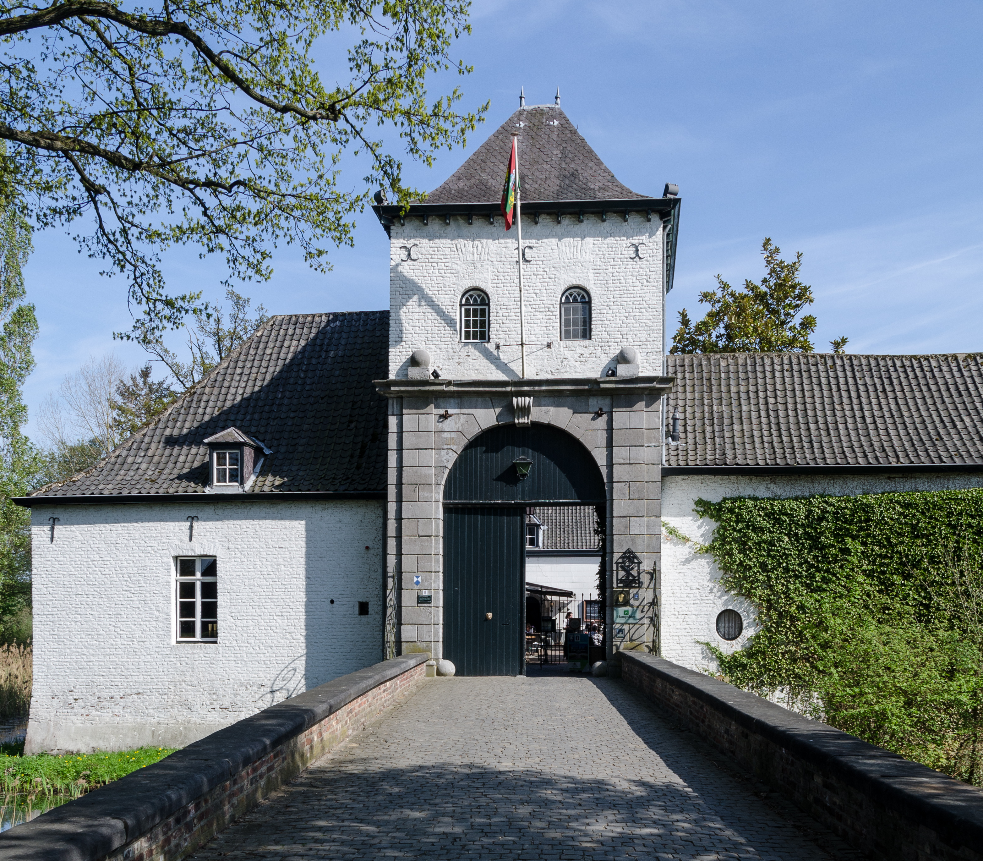 Daelenbroeck Castle in Herkenbosch, Netherlands